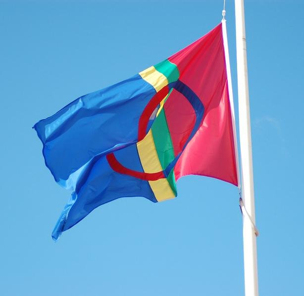 The Sámi flag in front of the IKEA in Haparanda, Sweden in 2010.